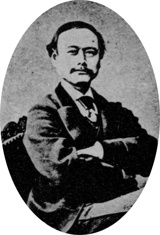 Kawaji Toshiyoshi